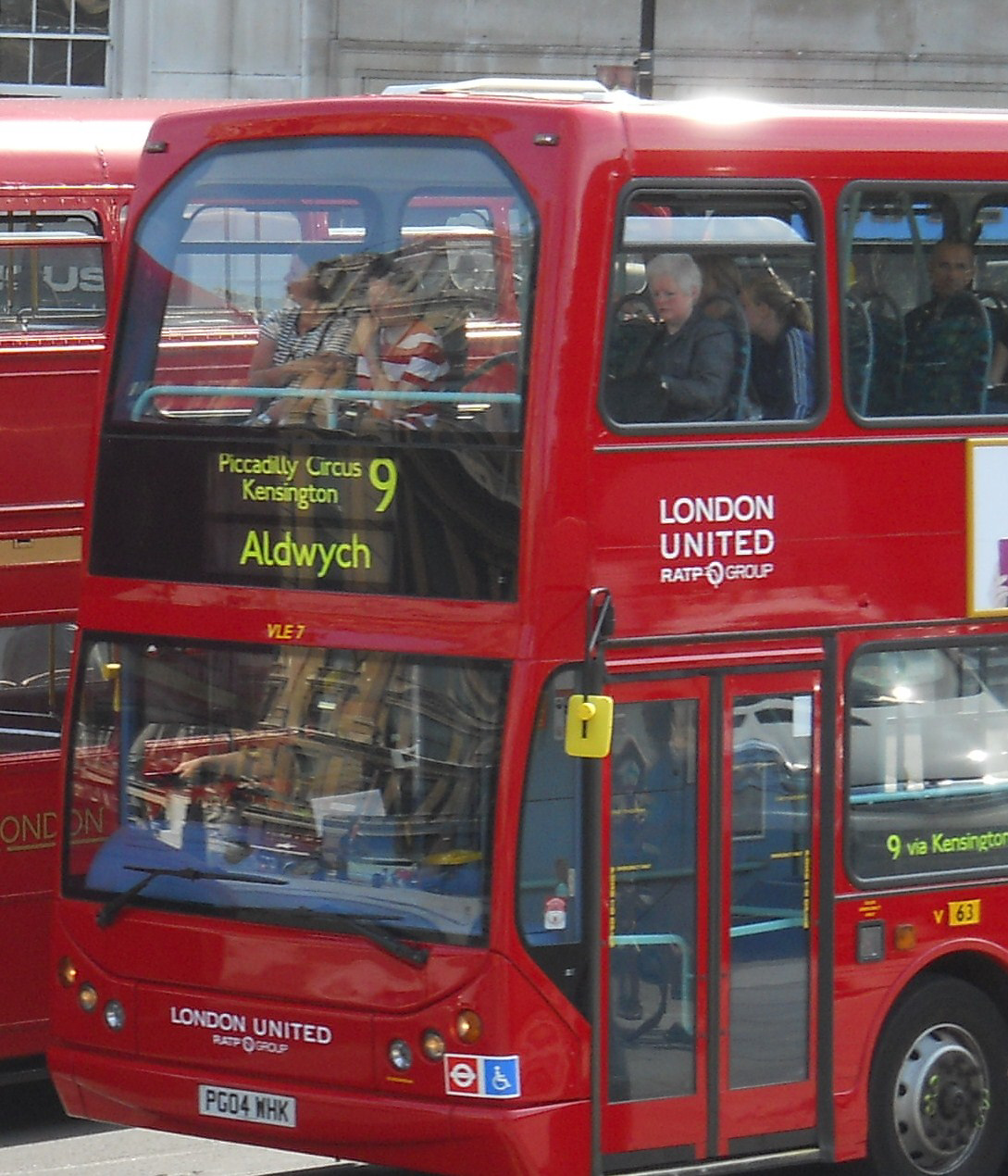 London United bus VLE7 (reg. PG04 WHK), a 2004 Volvo B7TL double-decker with East Lancs Myllennium Vyking bodywork, pictured in Trafalgar Square, City of Westminster, London, operating London Buses route 9 to Aldwych.